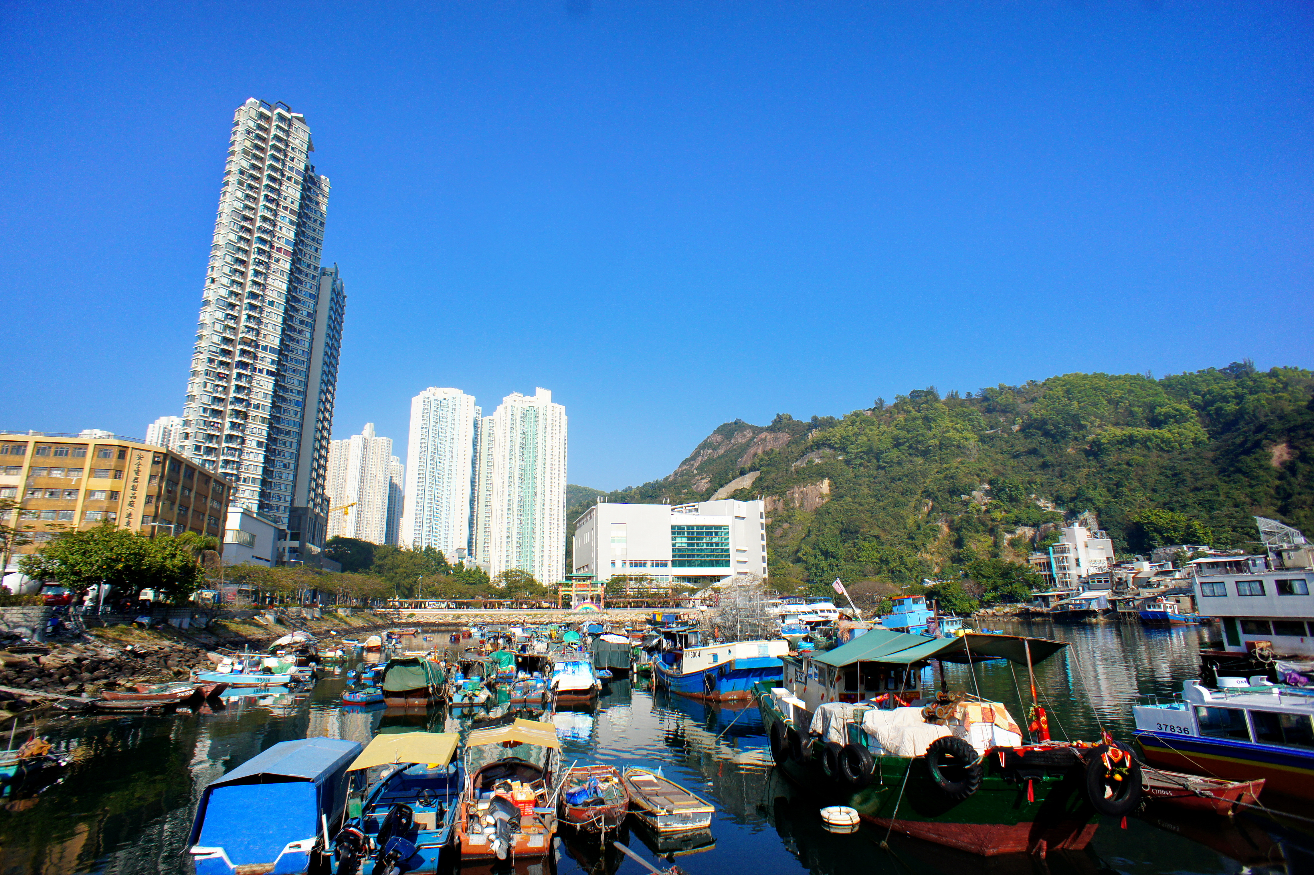 Sam Ka Tsuen Typhoon Shelter, Lei Yue Mun, Kowloon, Hong Kong.